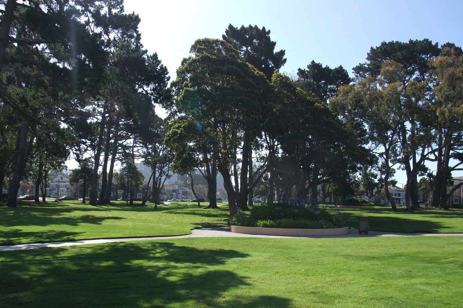 The Parkmerced Common, renamed Robert Pender Park in 2009, is a park-like area bounded by Juan Batista Circle, located in the Parkmerced neighborhood in San Francisco.